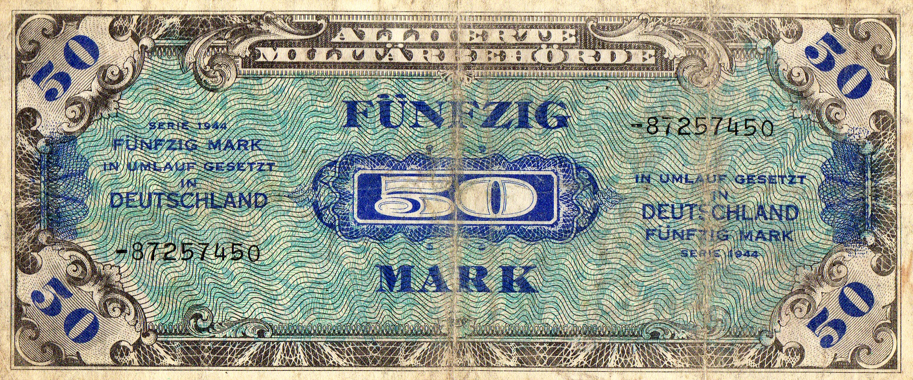 50 Mark allied military currency, soviet issue